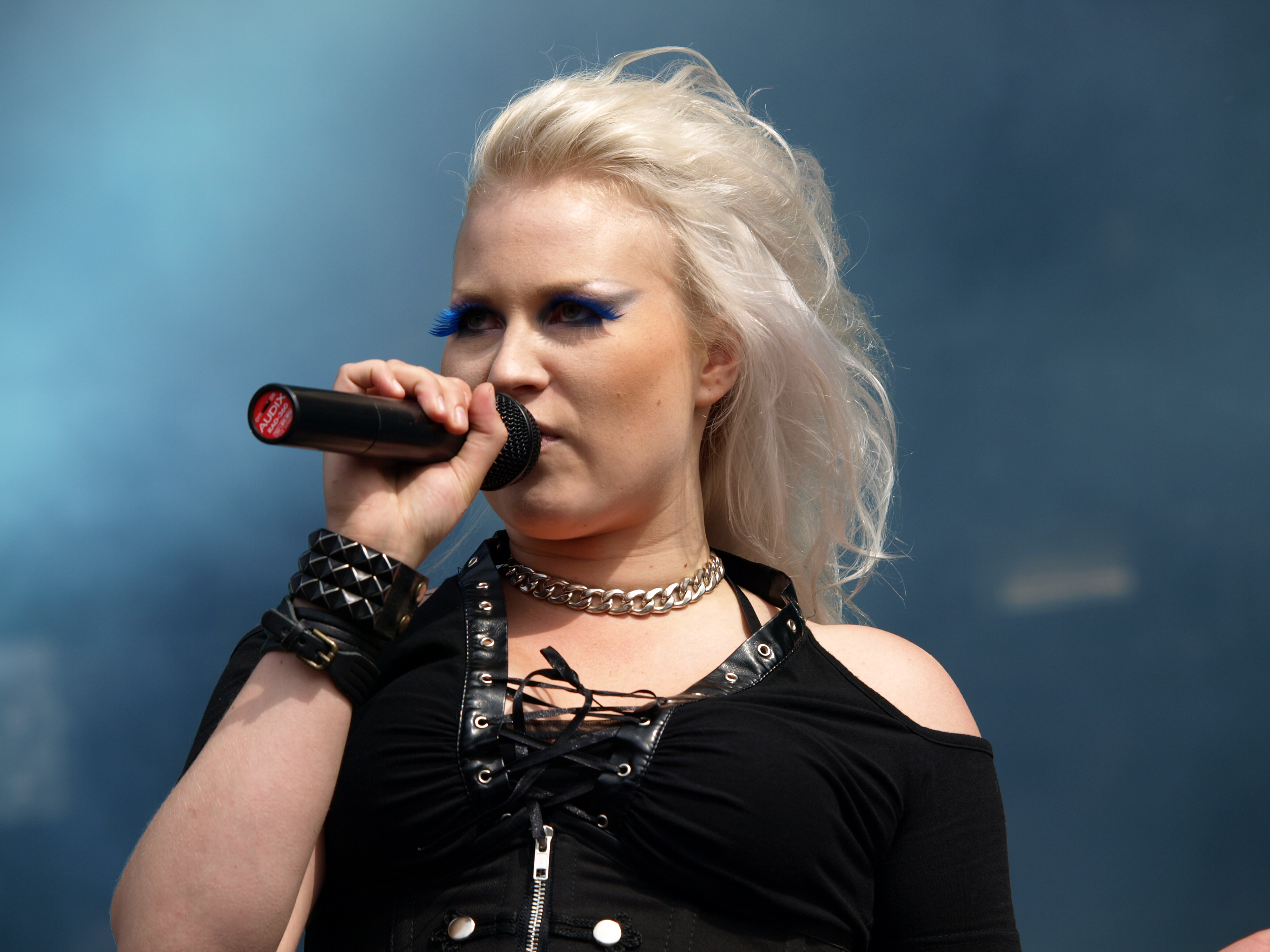 Finnish band Battle Beast at Tuska Open Air 2013; Noora Louhimo